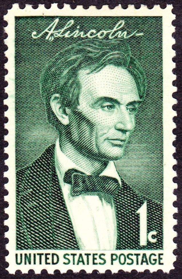 Commemorative Stamp of Abraham Lincoln, 1959 issue, 1c.